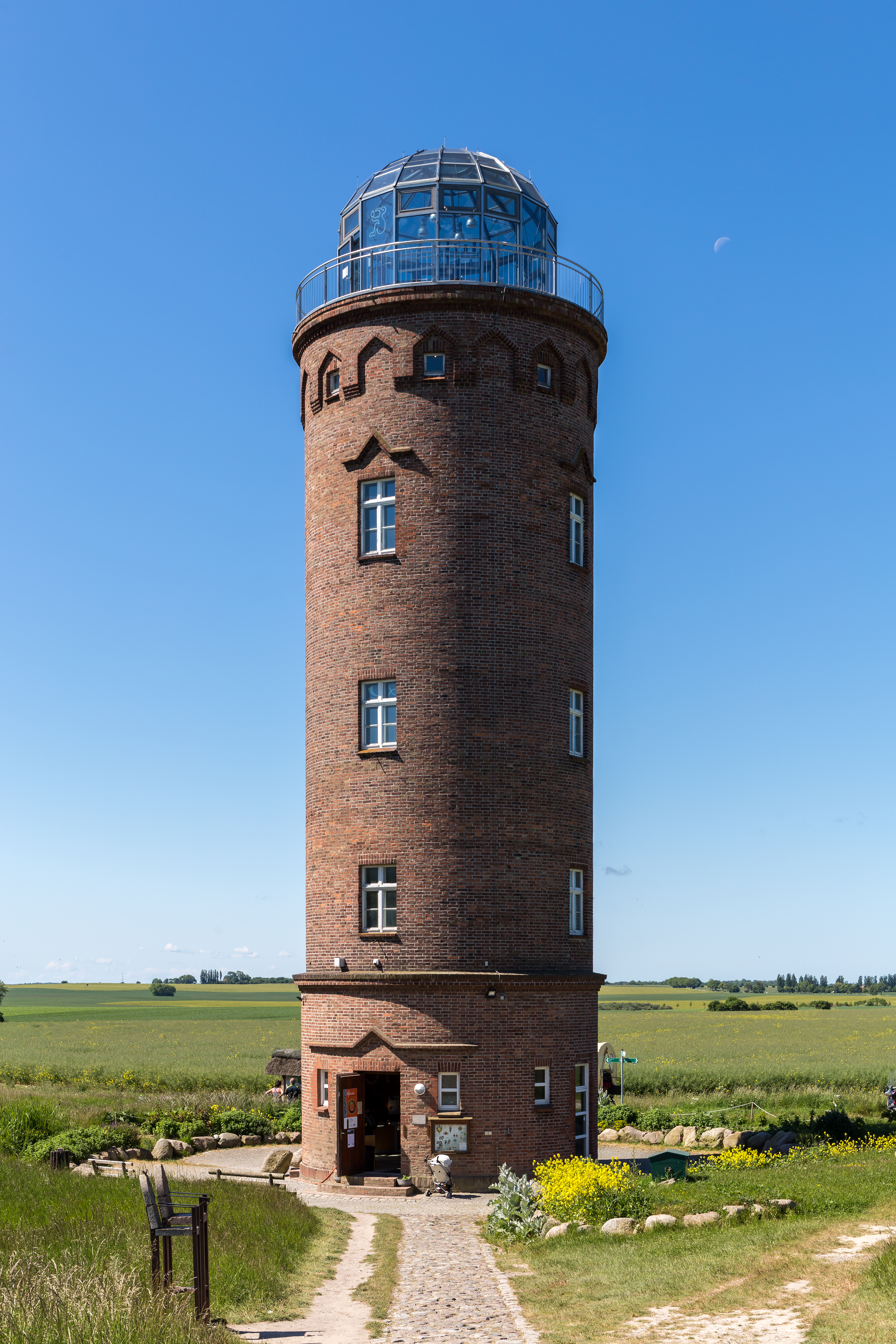 Former radio beacon tower at Kap Arkona (Rügen, Germany).